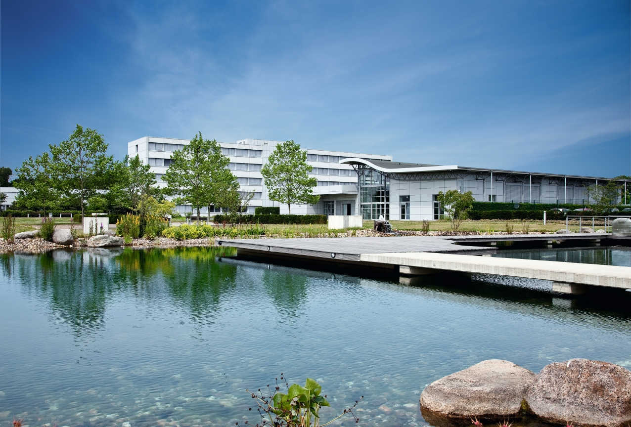 The Busch-Jaeger Elektro GmbH factory in Lüdenscheid, North Rhine-Westphalia, Germany.